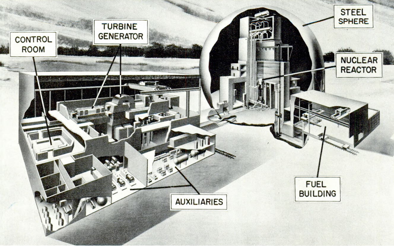 Details of the contents of the Dresden 1 dome and turbine building